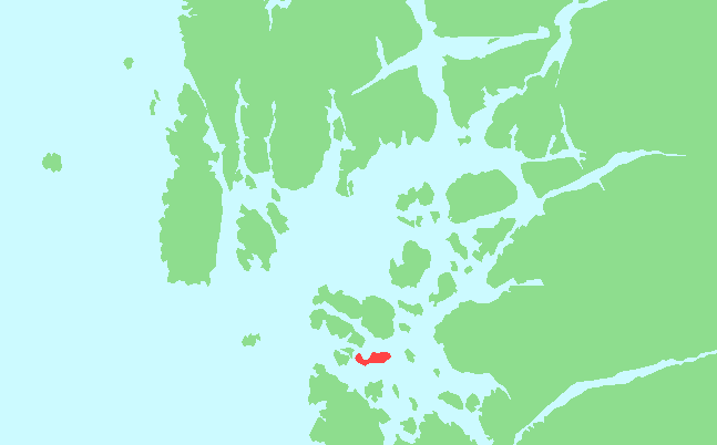 Locator map of Åmøy, Rogaland, Norway